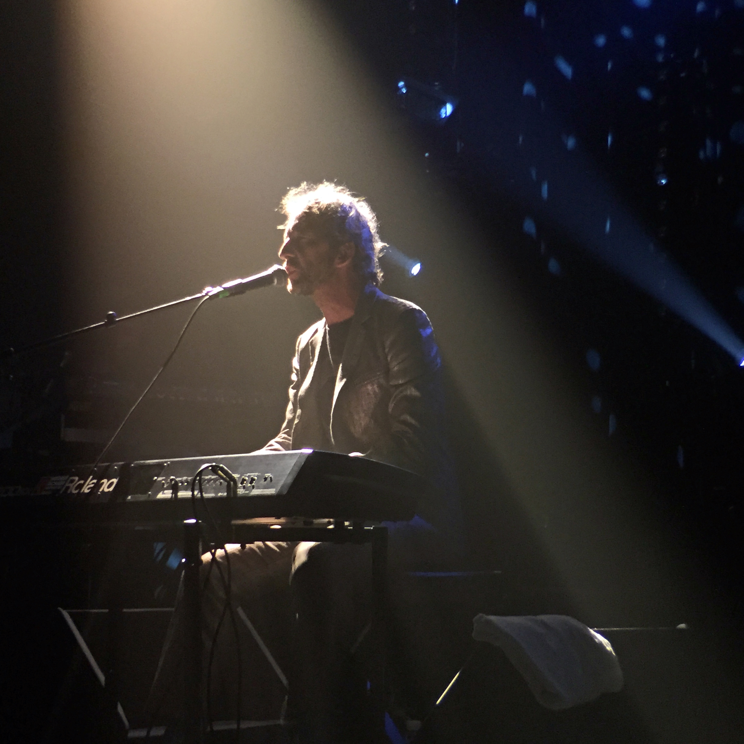 Arthur H en concert au festival d'été de Québec, à l'Impérial, en 2015